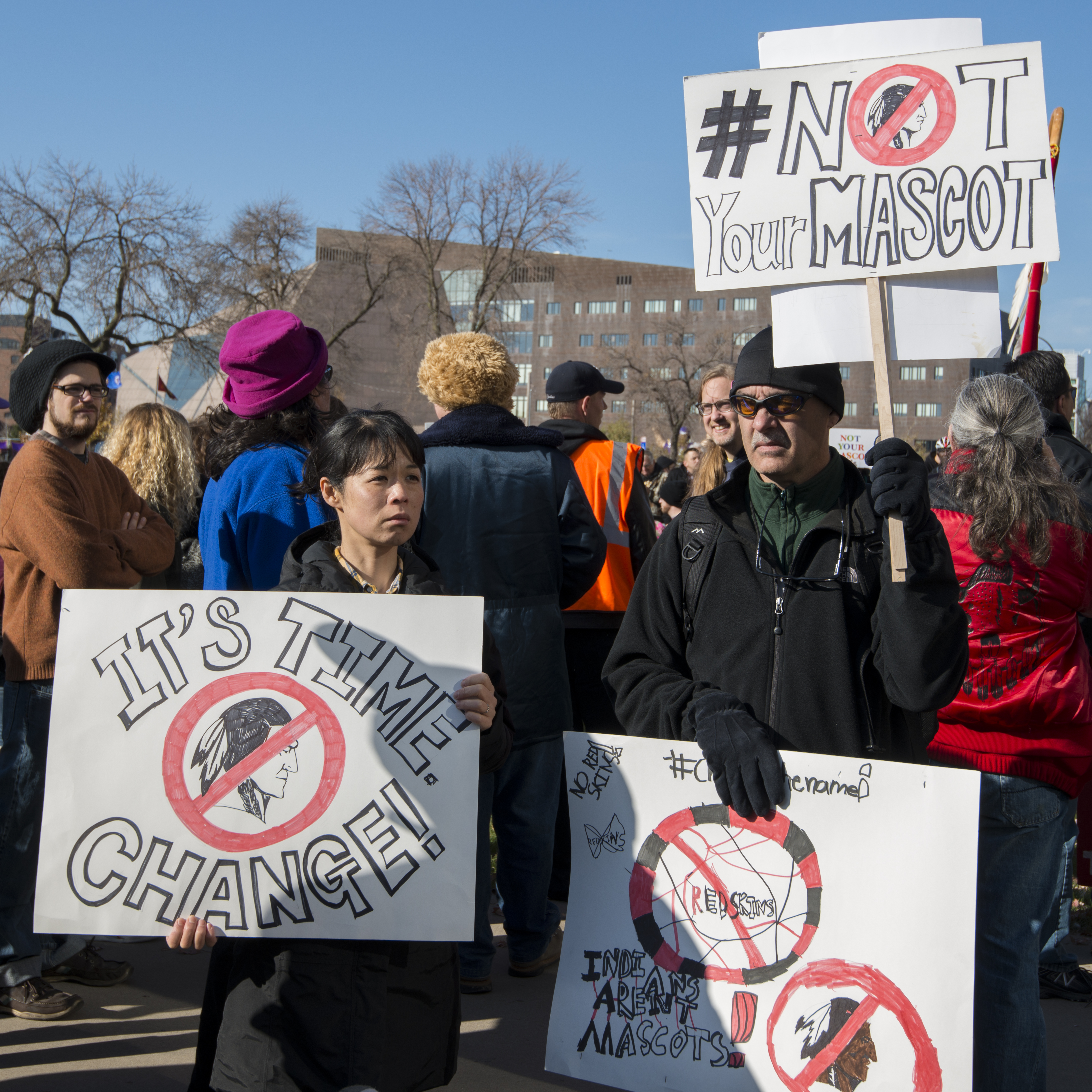 Protest of the Washington NFL team in Minnesota